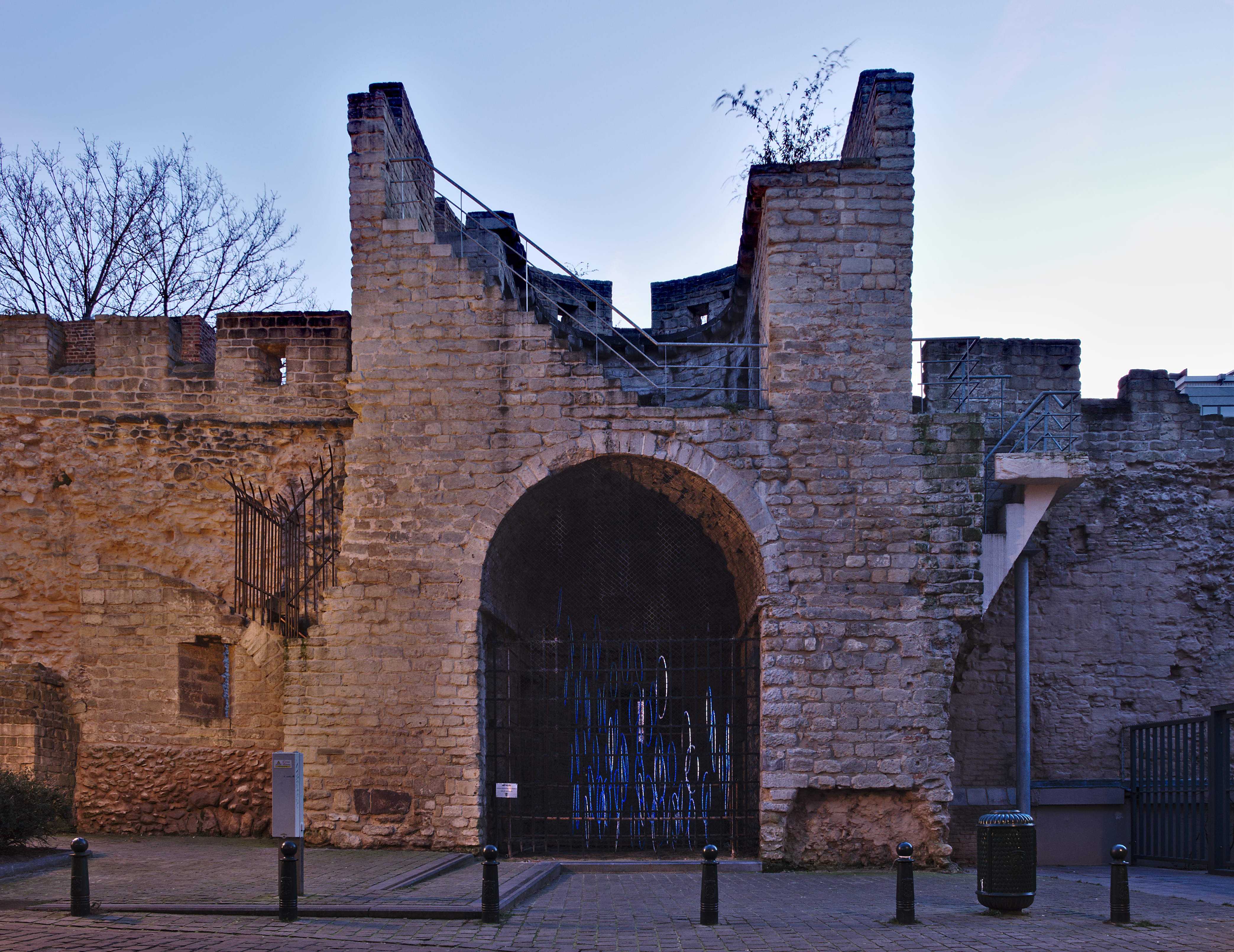 Tour de Villers with art installation "Impasse" by Juliane Lavis and Bernard Declercq in Brussels (DSCF4342)